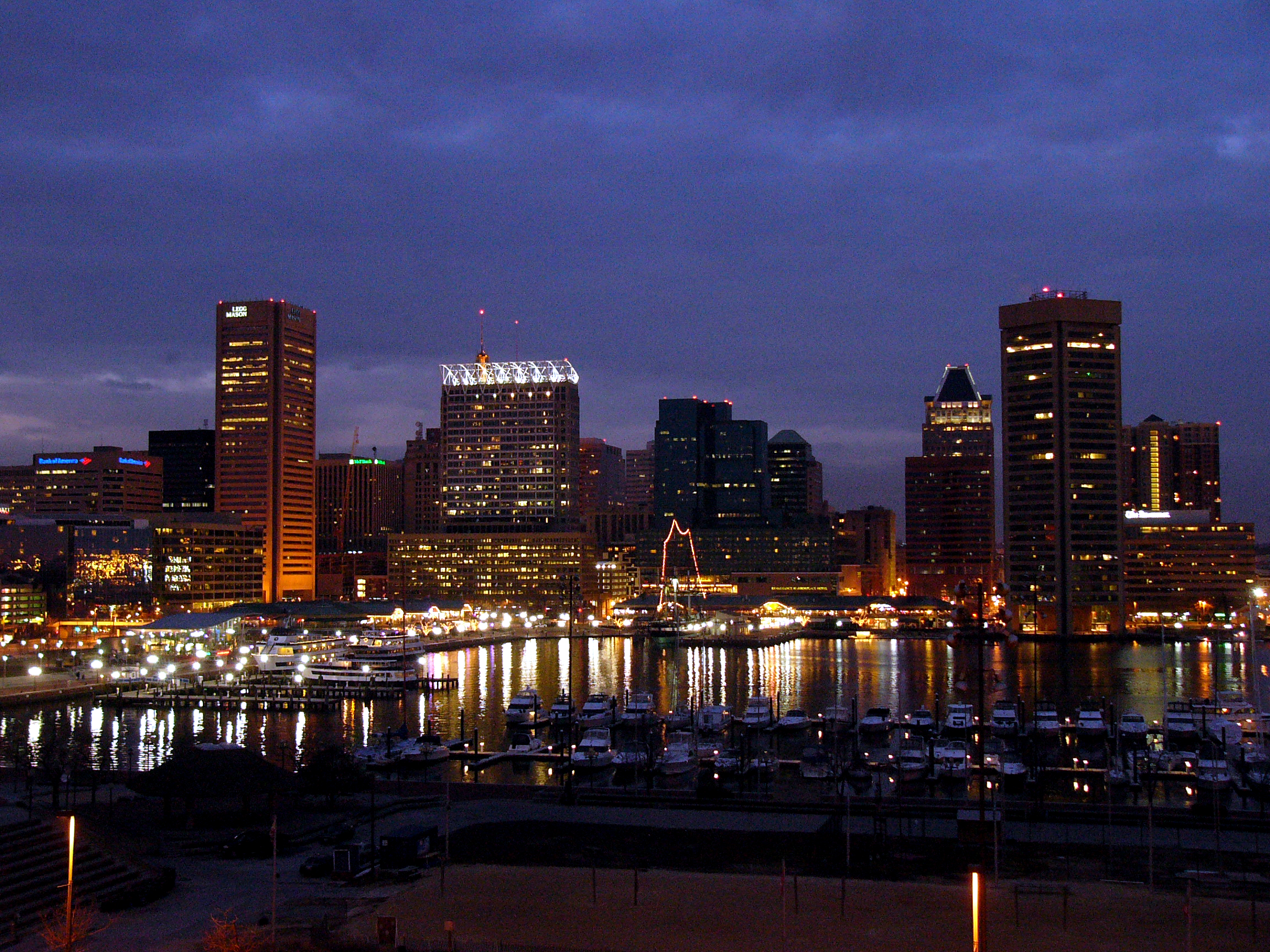 I lived in this neighborhood (Federal Hill) for 17 years. I worked on the 25th floor of the tallest building on the left for 5 years. It was then the USF&G Insurance Company. I could see the Chesapeake Bay Bridge from my desk, My great grandfather's company, Egerton Brothers, was on the same site for many years. The tall building on the right is the World Trade Center. The Streets of Baltimore by Bobby Bare on YouTube (Thanks Johan!)